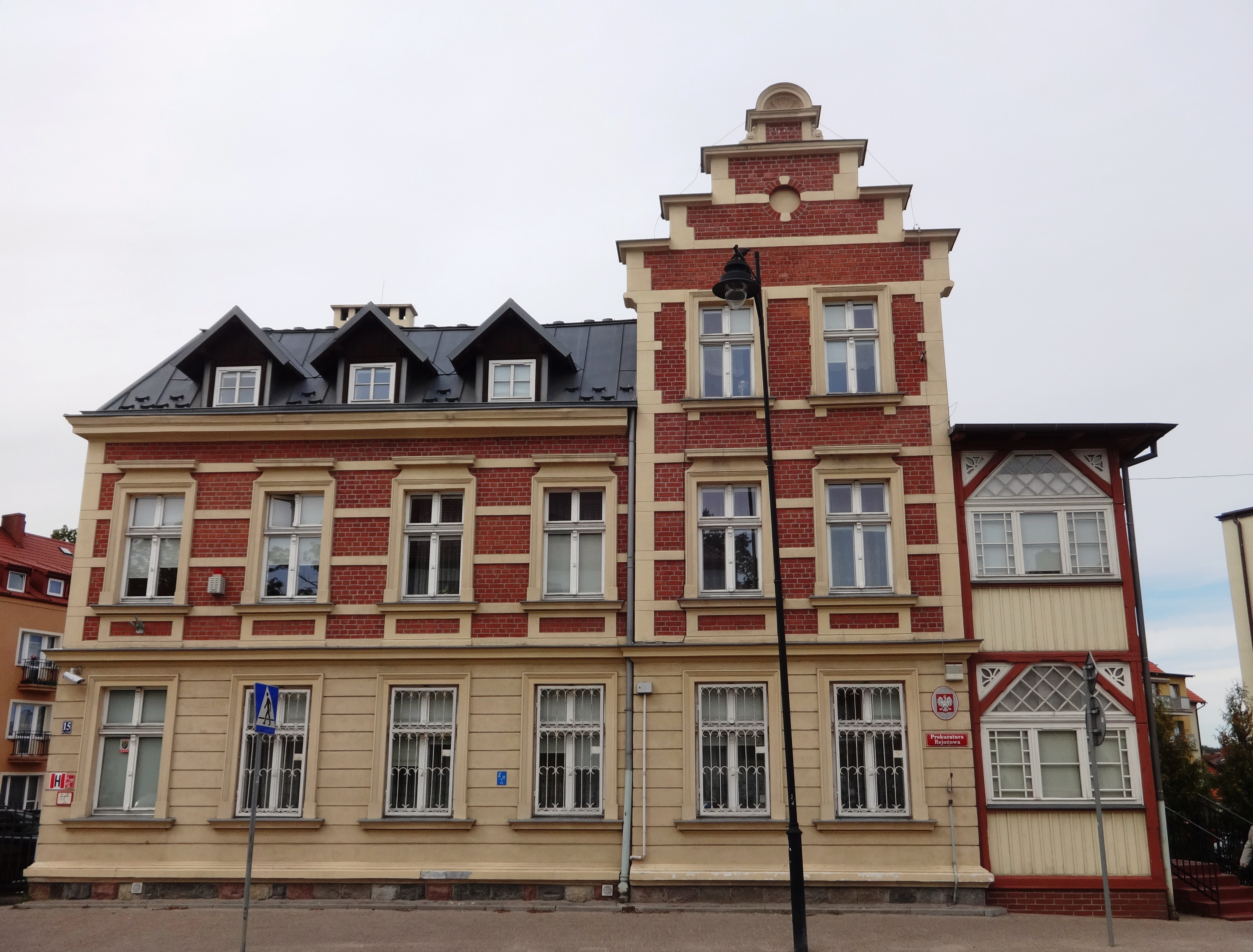 Prosecutor office in Kartuzy, Poland